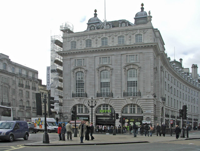 Building on corner of Regent Street and Piccadilly, London W1 This imposing building at the end of the curved terrace in Regent Street used to be the department store, Swan & Edgar.